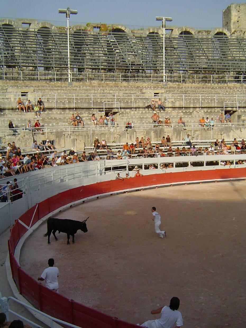 Photograph of Course Camarguaise in Arles Arena. Razeteurs warily approaching wary bull. Photographed by Jeremy J. Shapiro in August 2007